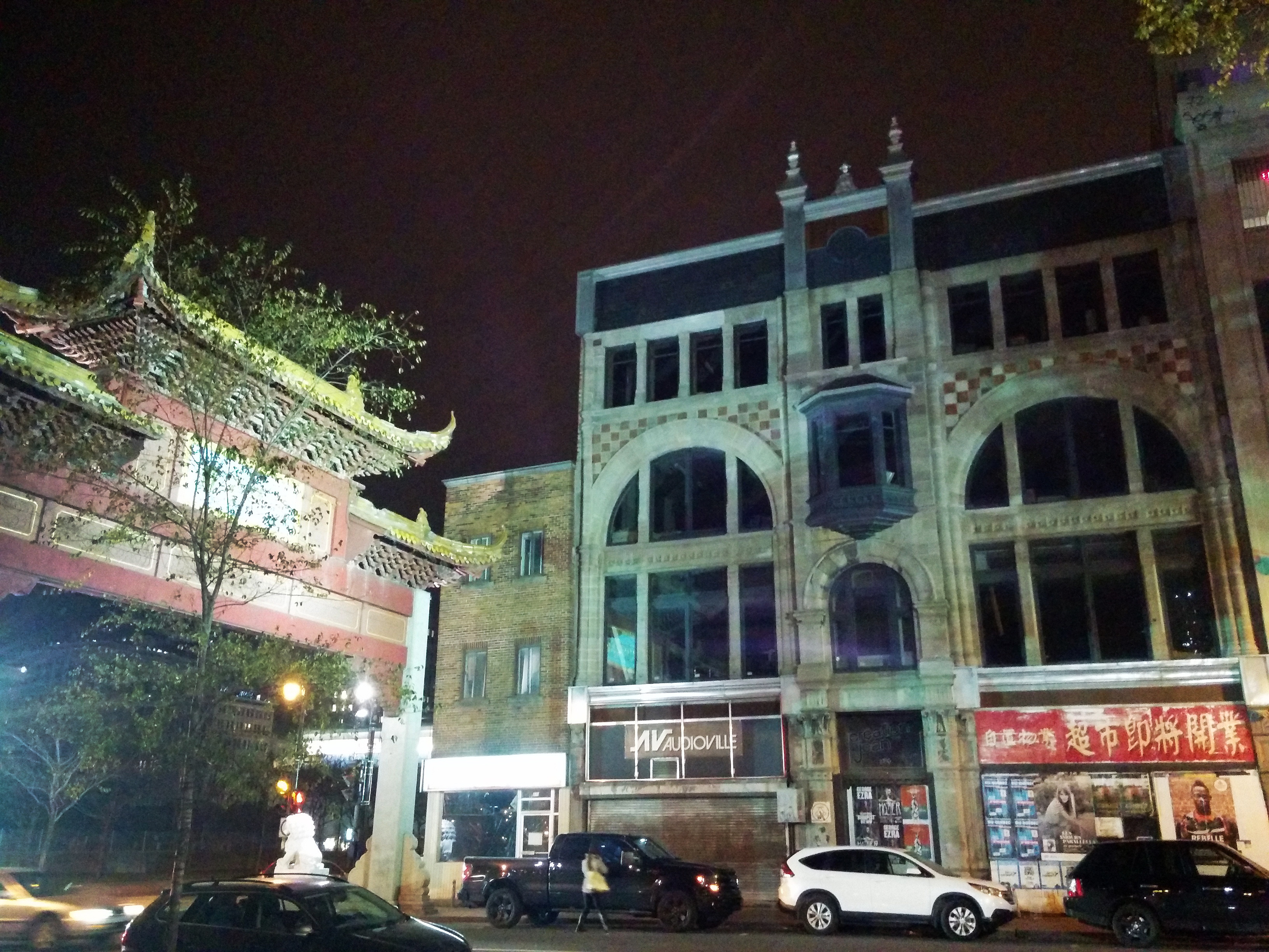 Édifice Robillard (Robillard Block), landmark building built in 1879 in Montreal's Chinatown at 972-976 Saint Laurent Boulevard. Photo taken 8 November 2014.